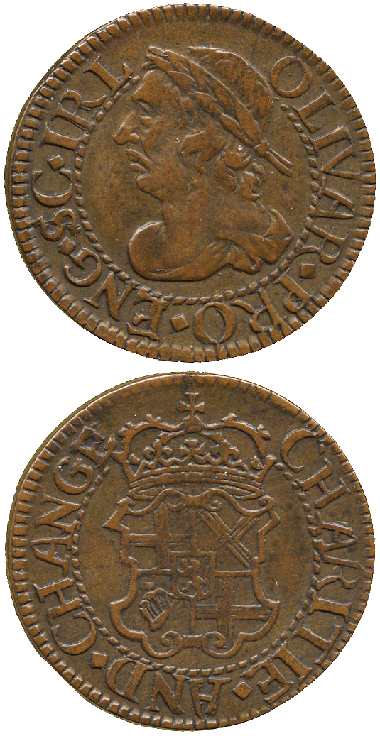 Cromwell 'Charity and Change' Pattern Fathing